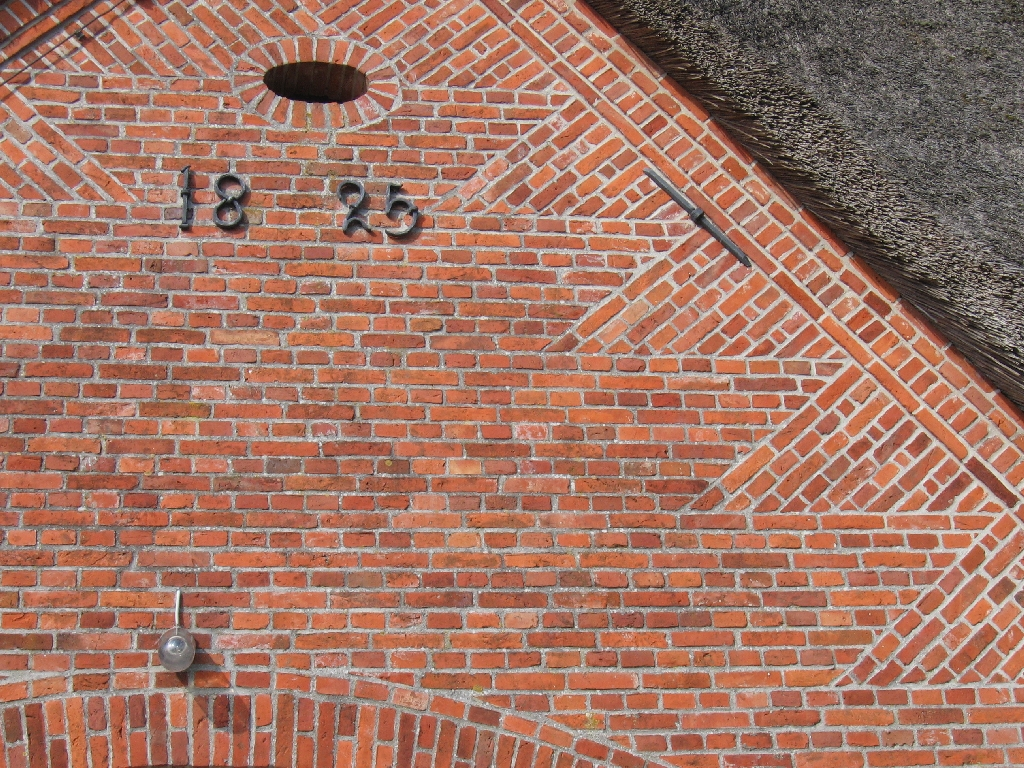 Façade detail on the Jacobs house in Seeth with sawtooth pattern, cross-hatched brickwork and year of construction. On a Haubarg farmhouse in north Germany.